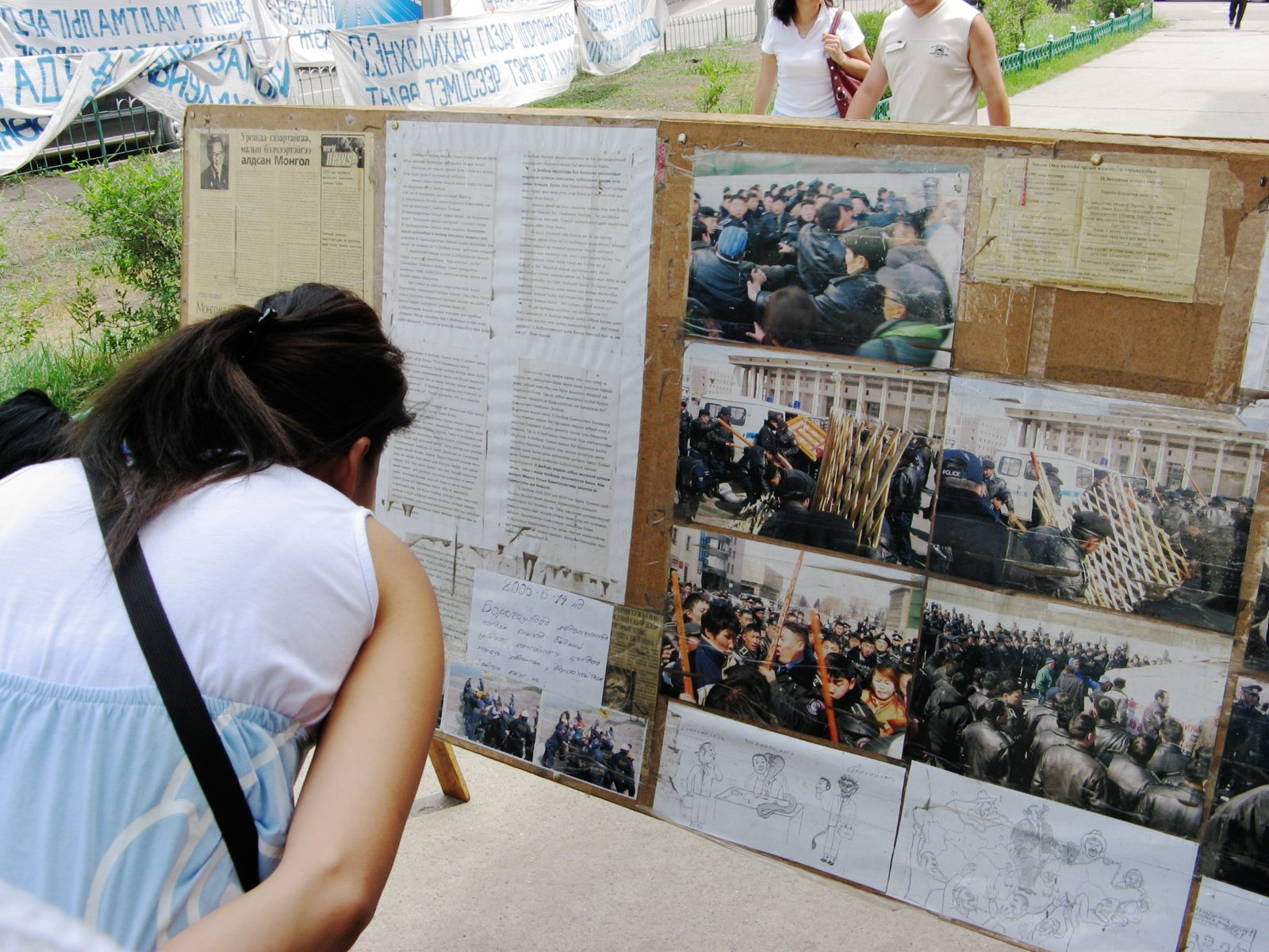 Mongolia, Ulaanbaatar, Information booth of a citicen's initiative against uncontrolled mining